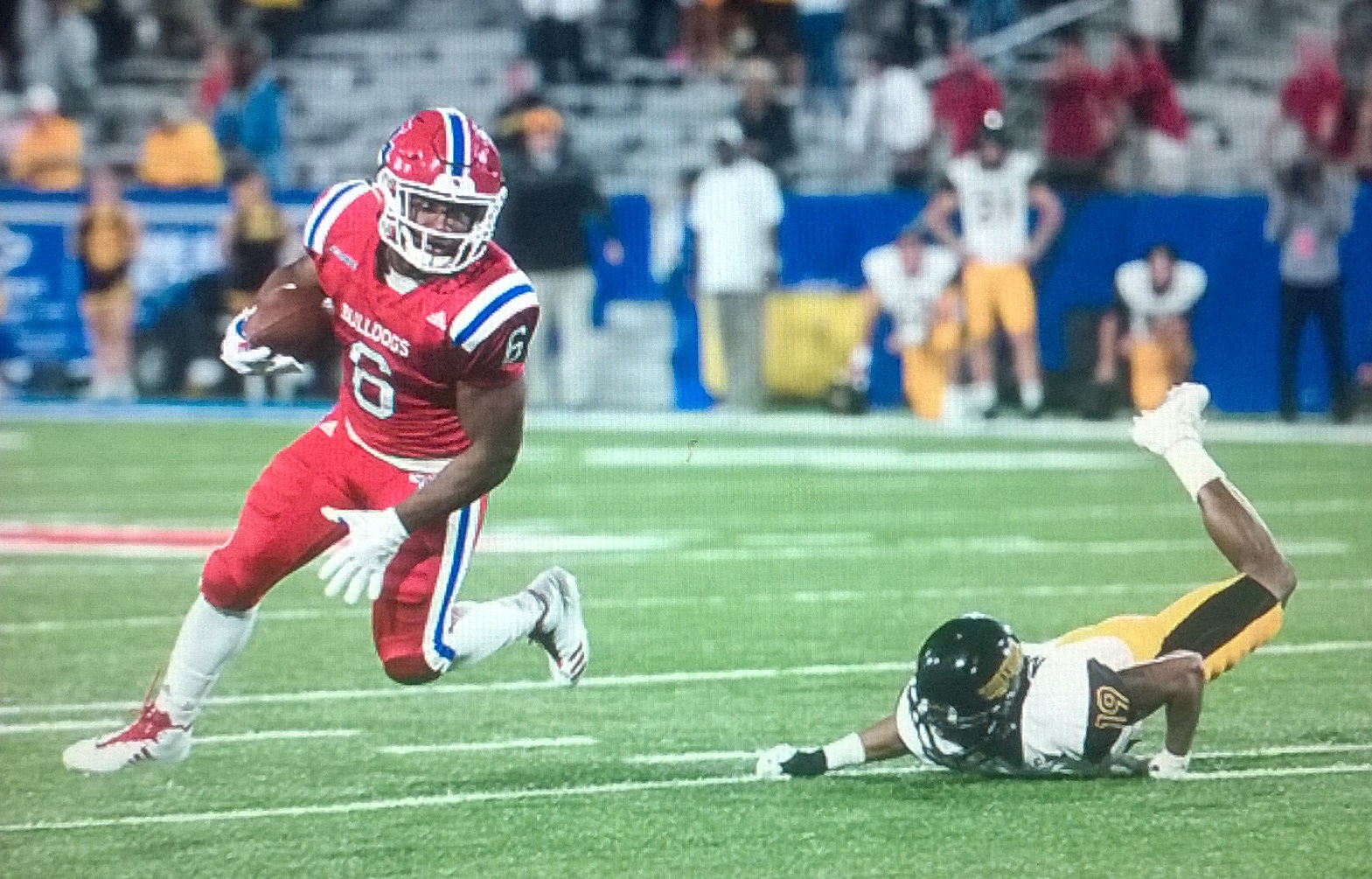 Boston Scott #6 Louisiana Tech Bulldogs evades defender Southern Mississippi Golden Eagles vs. Louisiana Tech Bulldogs